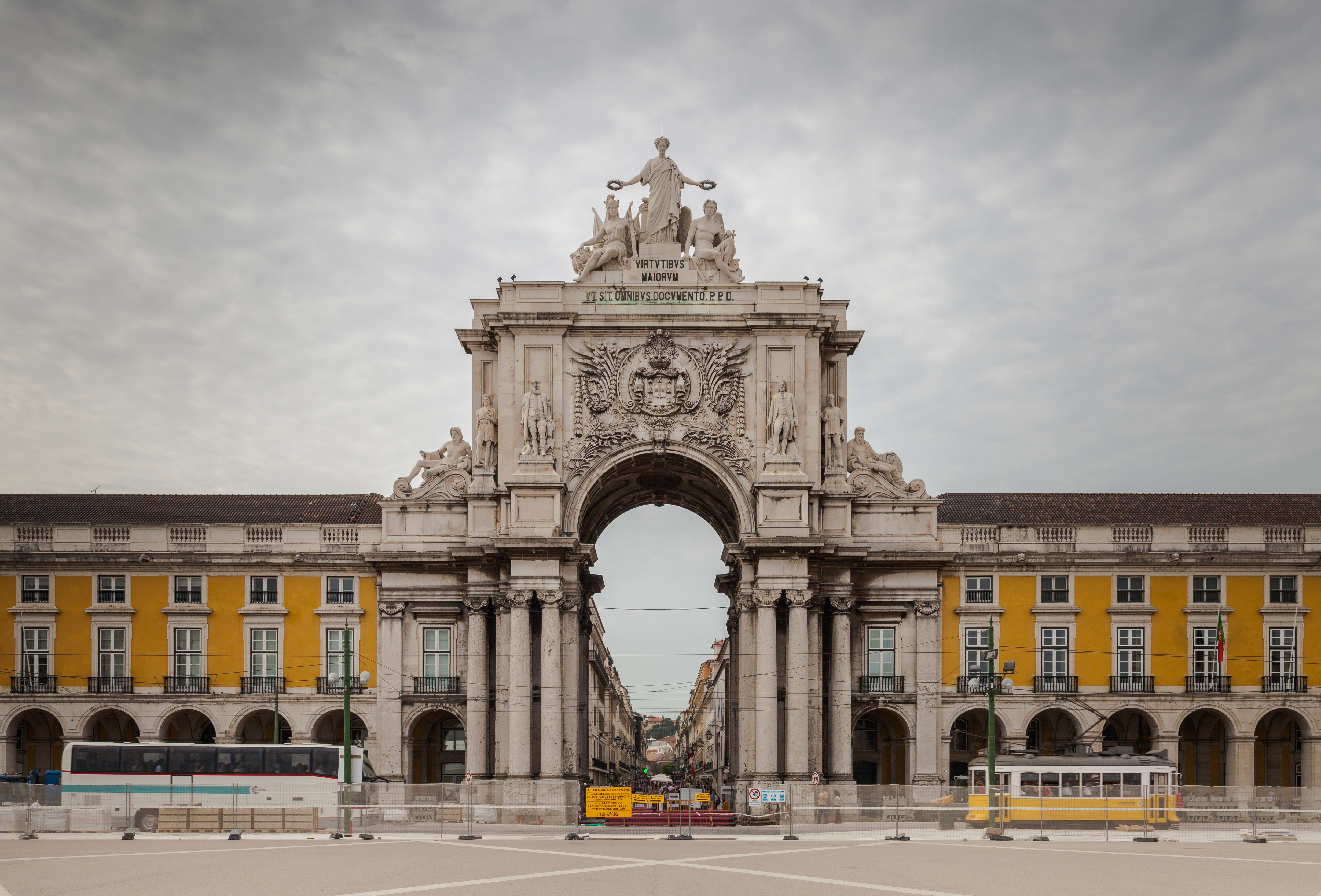 Triumph Arch in Rua Augusta, Lisbon, Portugal